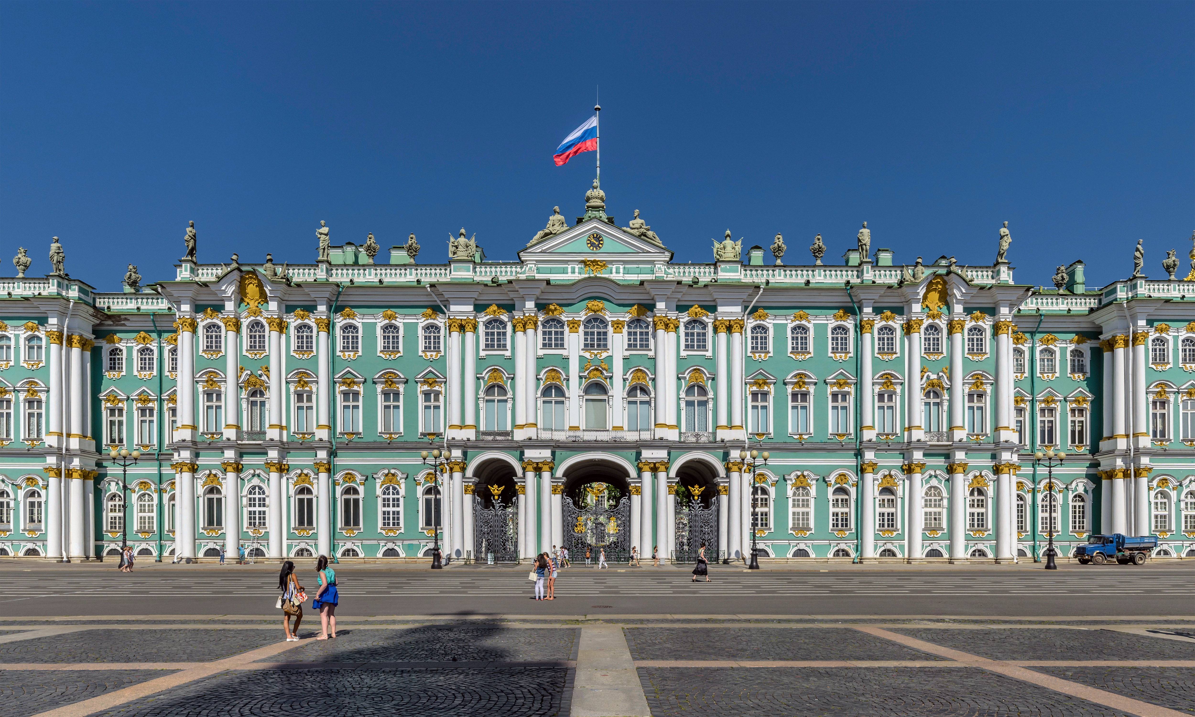 Winter Palace in Saint Petersburg, the Central Part of the South Facade